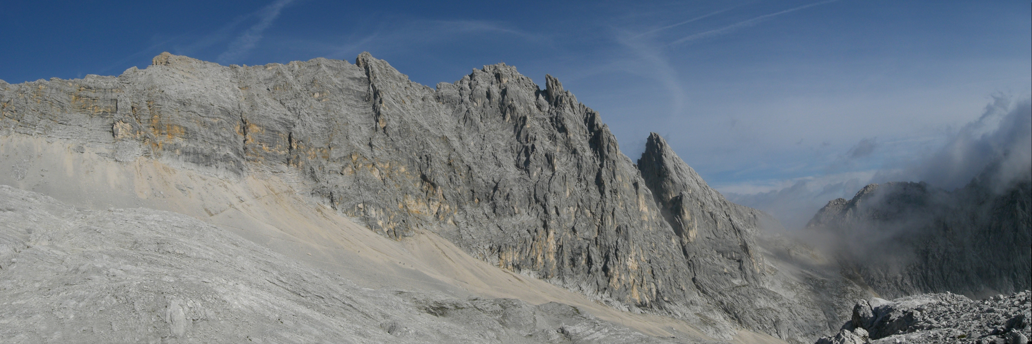 Partenkirchner Dreitorspitze from S: left to right: Westliche- (2634 m), Mittlere- (2626 m), Nordöstliche Partenkirchner Dreitorspitze (2606 m), Bayerländerturm (2507 m), Dreitorspitz-Gatterl with Meilerhütte (2366 m, in the mist) with Hermann-von-Barth-path from south (from Leutascher Platt). (Composite of 3 single landscape pictures)